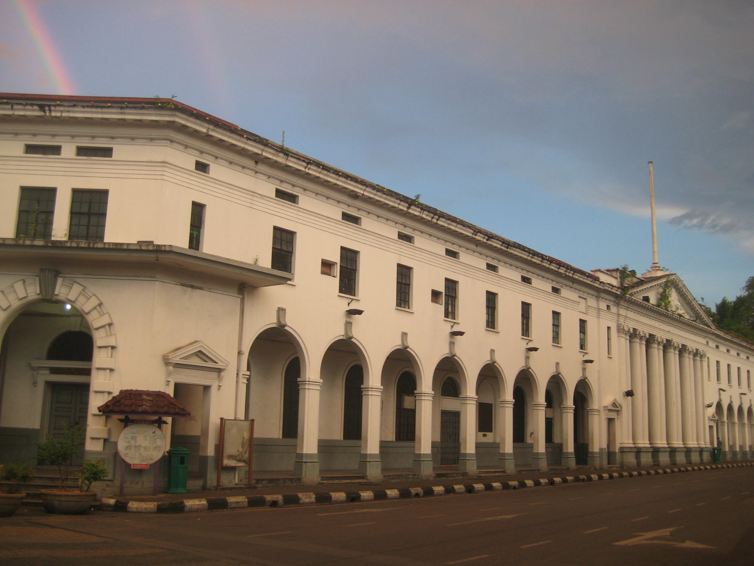 Kuching Post office